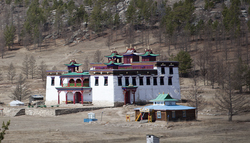 A Buddhist monastery in northern Mongolia.